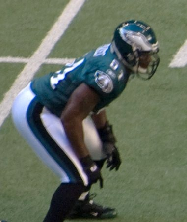 Cropped from original; Takeo Spikes in 2007 as a Philadelphia Eagles linebacker.